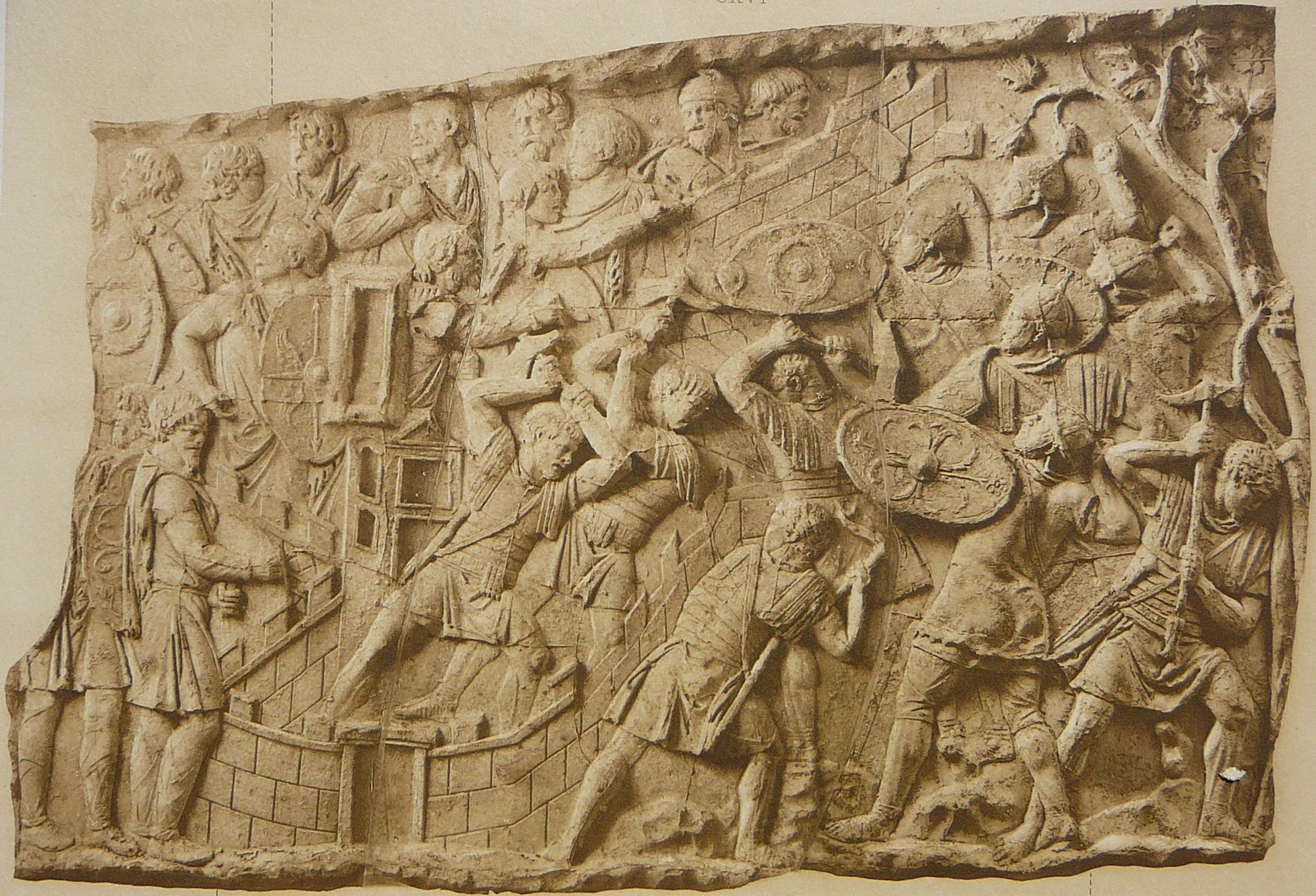 An assault on the fortress (scene CXVI); preparations for a blockade (scene CXVII)